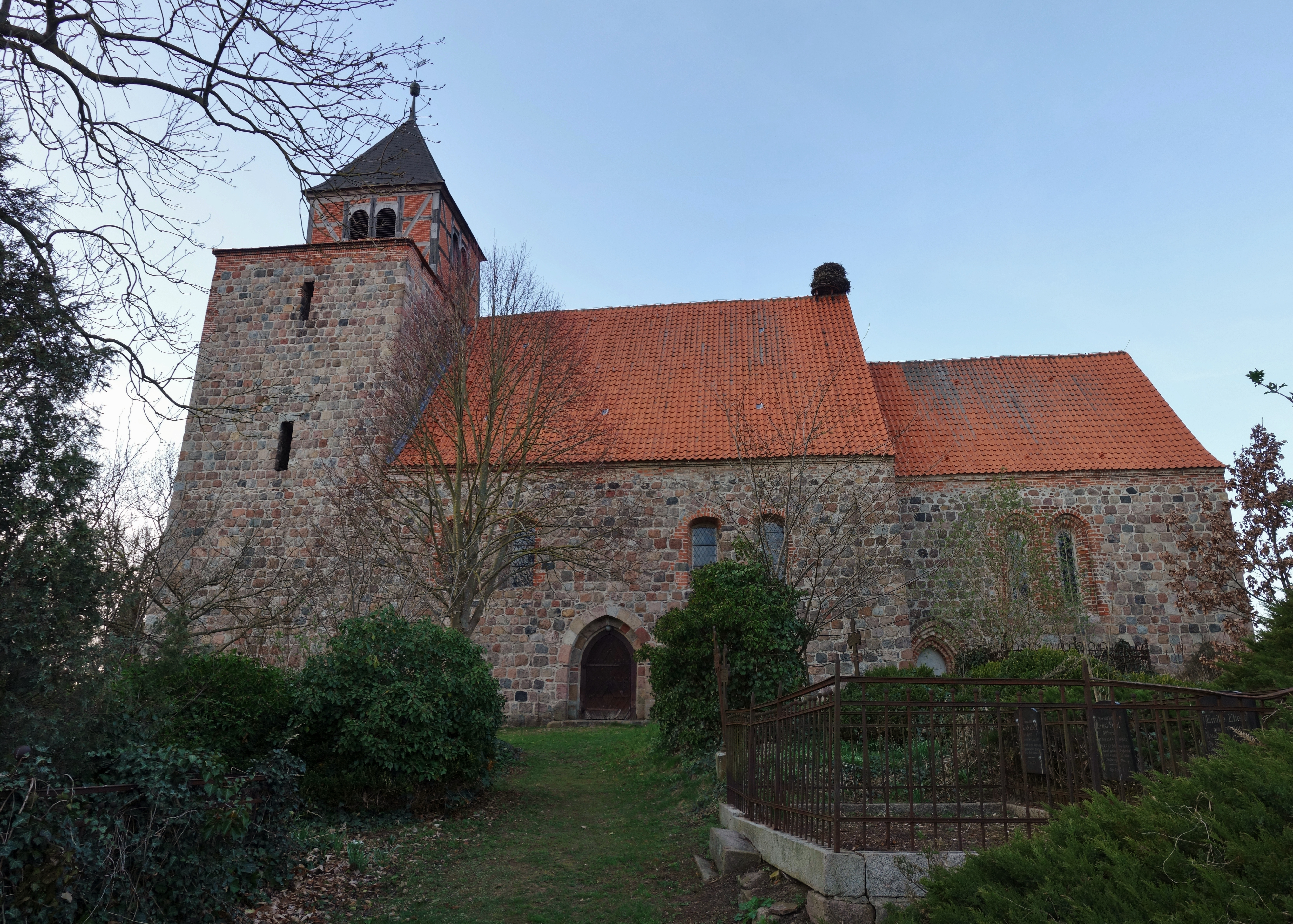 Southern view view of church in Hetzdorf, Uckerland municipality, Uckermark district, Brandenburg state, Germany